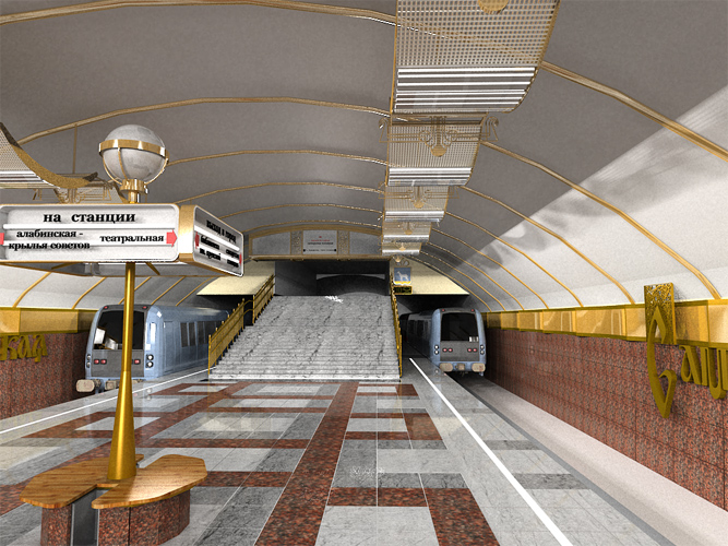 Architectural project of metro station "Samarskaya" in Samara executed by Koryakina Polina Yuryevna, architect "VTS_project". Initially this project was elaborated in the 80s of the 20th century by reknown Russian architects Morgun Galina Vasilyevna and Morgun Aleksey Grigoryevich